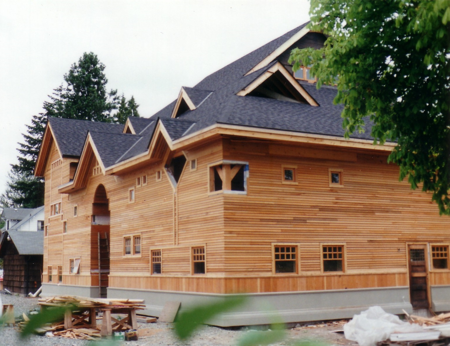 The building of Paul Fritts and Copany Organ Builders in Tacoma, Washington, USA.